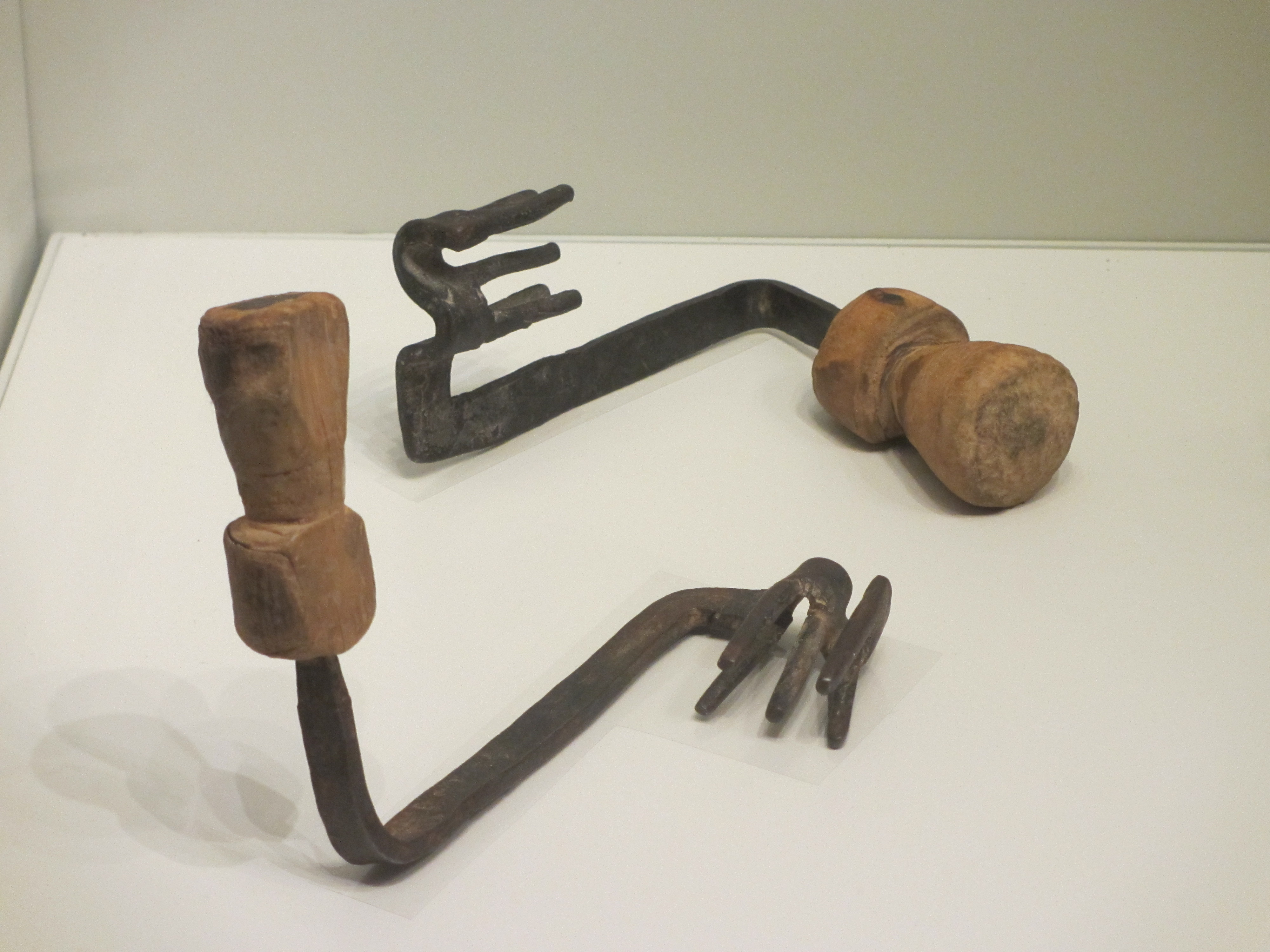 House keys. Cave of the Letters, Nahal Hever (132-135 CE). Israel Museum, Jerusalem